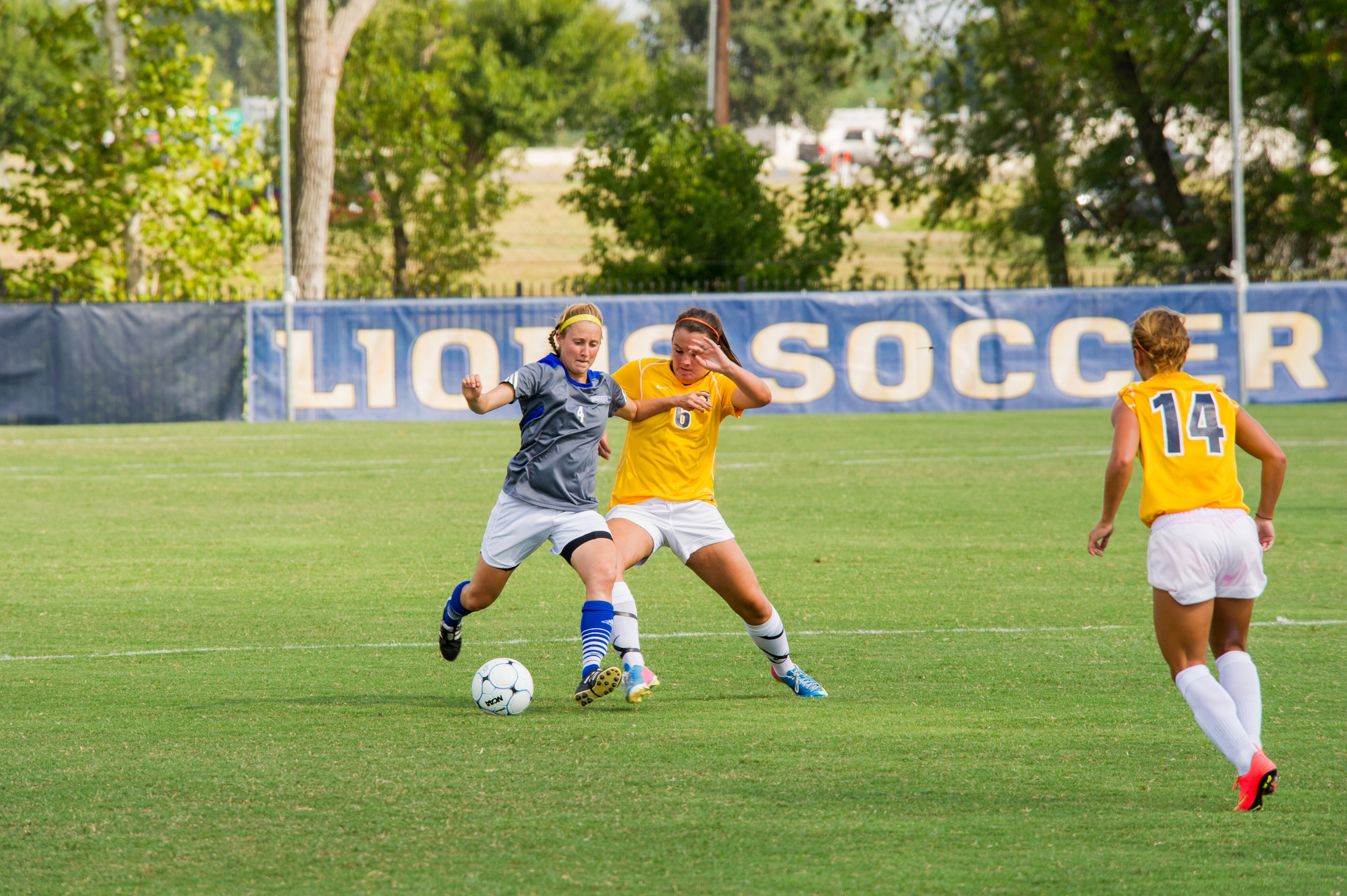 Athletics-Soccer vs StMU-9142.jpg 2014–15 Texas A&M–Commerce Lions women's soccer team